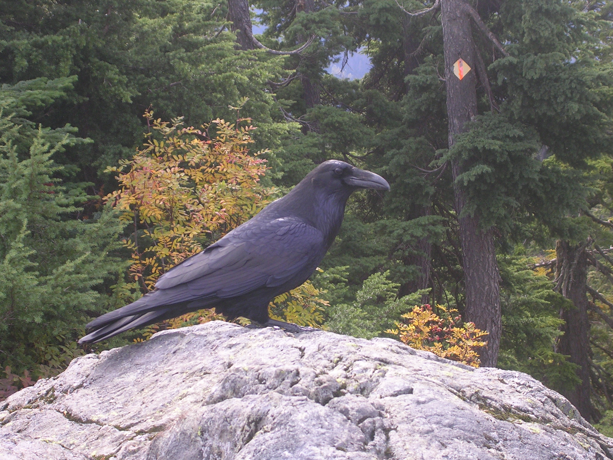 A Common Raven in Cypress Provincial Park, British Columbia